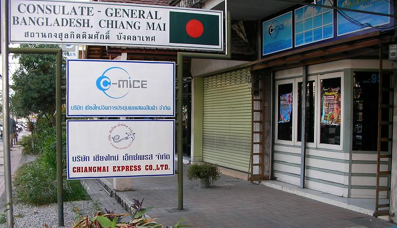 view of Bangladeshi consulate location in Chiang Mai, Thailand